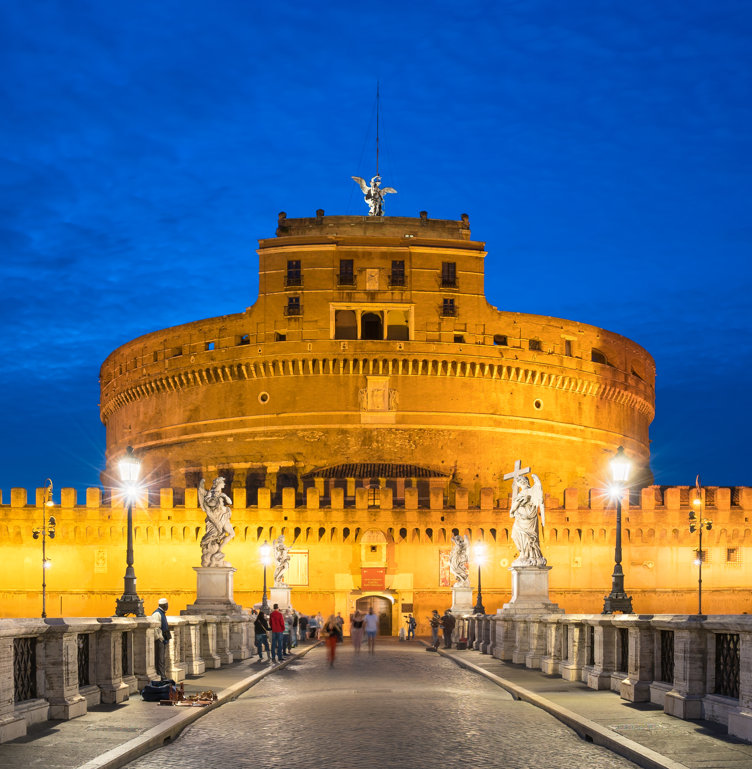 Castel Sant'Angelo and Ponte Sant'Angelo in Rome, Italy